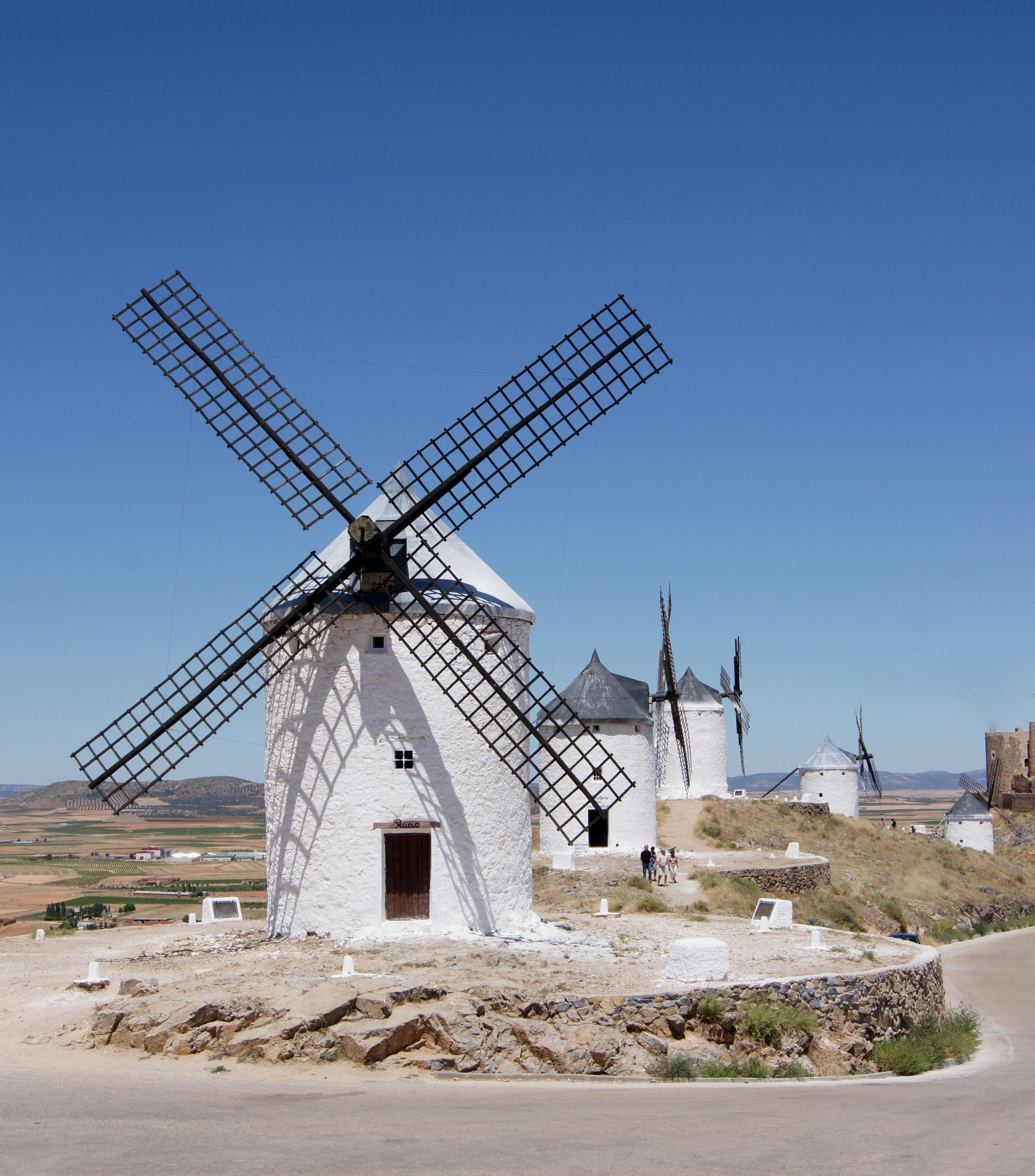 windmills on the hill of Consuegra, Castile La Mancha, Spain. The one in foreground is named "Rucio"